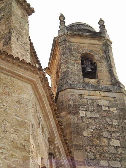 Cuenca Spain - Antique Bell Tower